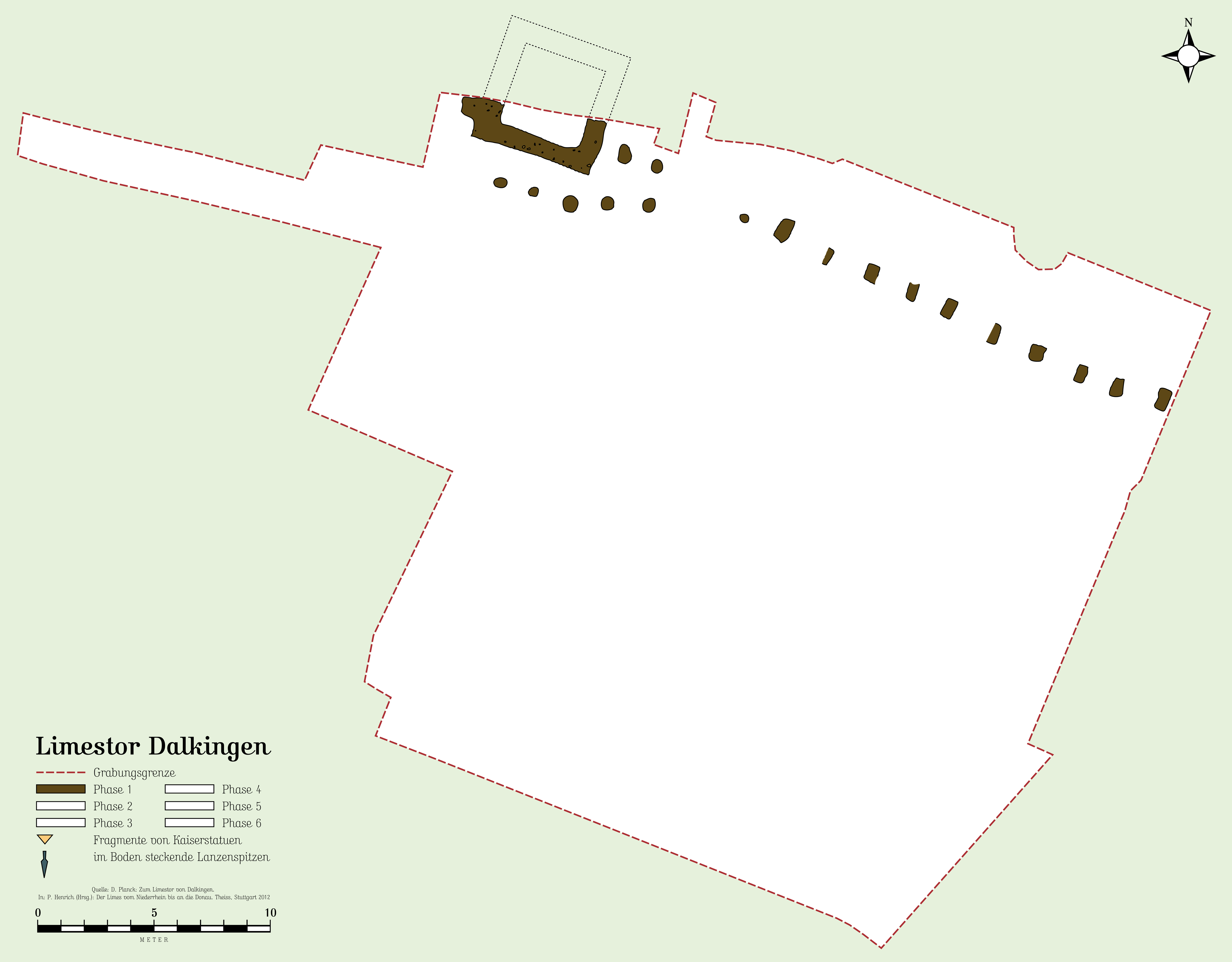 The Roman Limes gate of Dalkingen, Germany; 1st construction phase (of altogether six) after D. Planck. Created on Macintosh; saved in Wikipedia with Adobe Photoshop CS 3